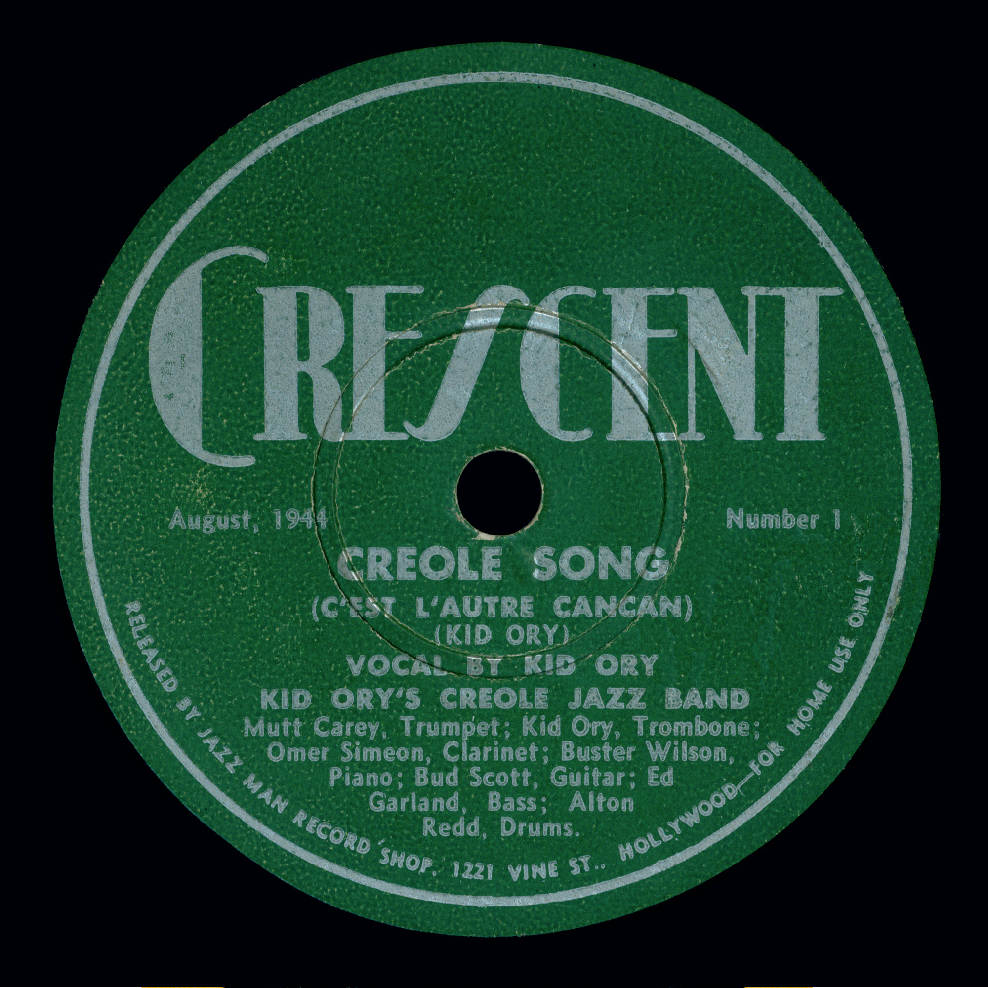 Crescent Records 78 label by Kid Ory's Creole Jazz Band, for Kid Ory's song, "Creole Song".